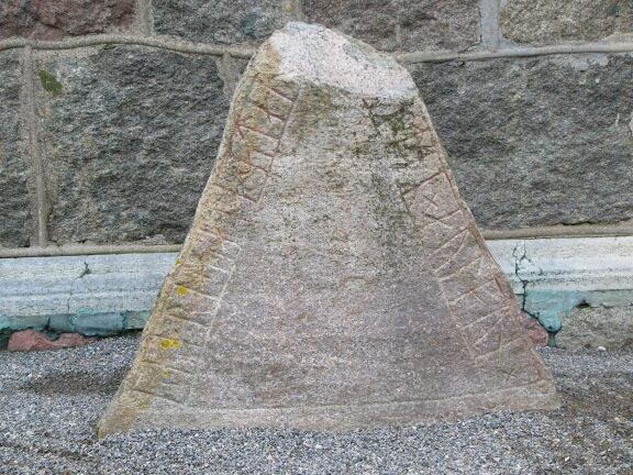 Bjäresjö runestone DR287 (Bjäresjö church)